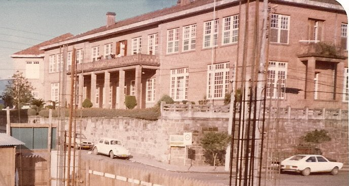 My school